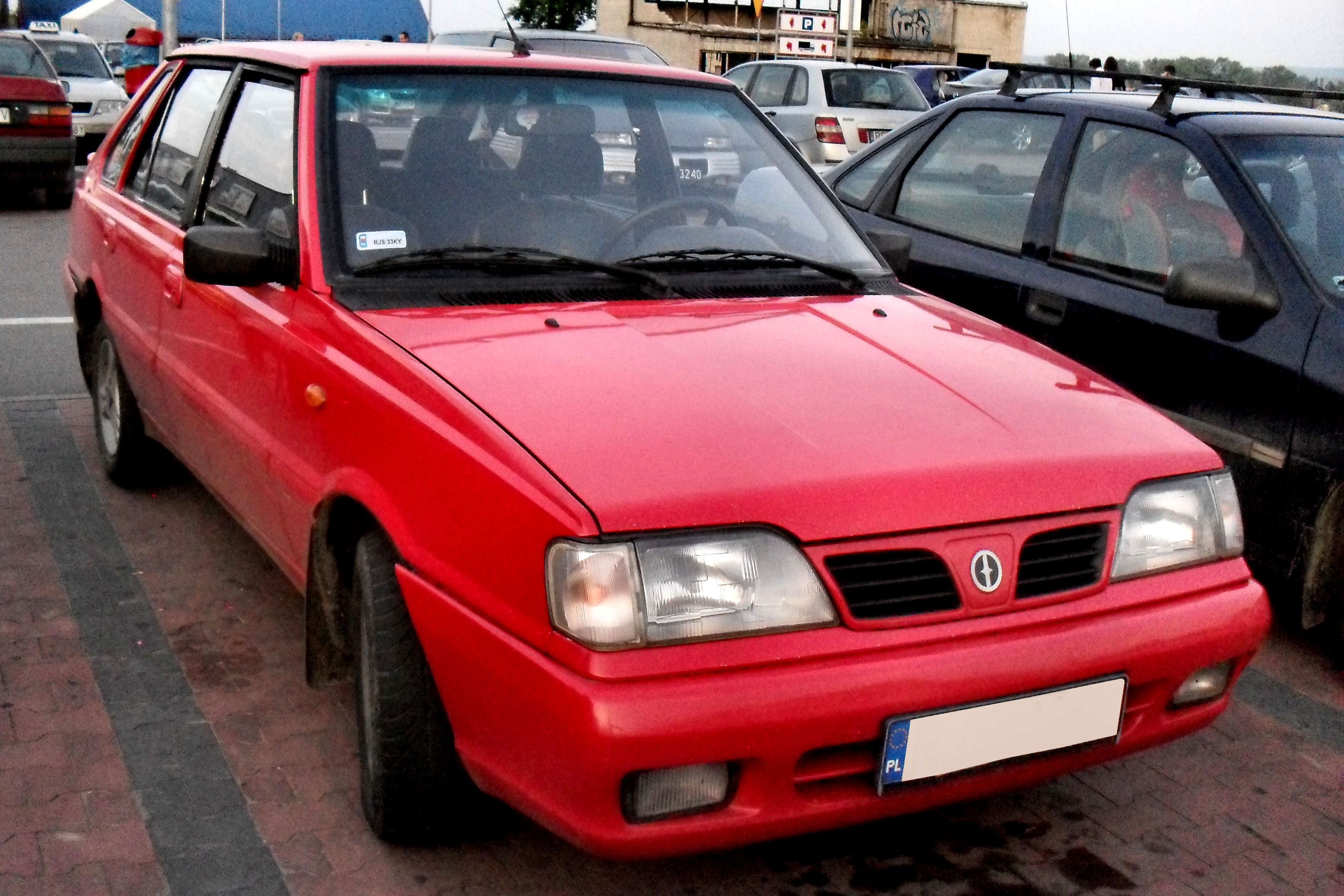 Daewoo-FSO Polonez Caro Plus seen in Jasło, Poland.